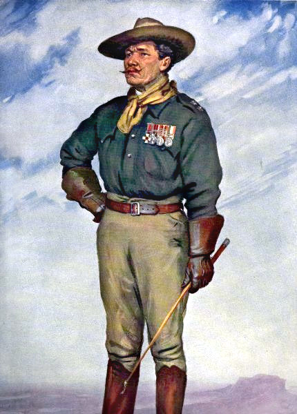 Caricature of Colonel Daniel Patrick Driscoll DSO. Caption read "An old war horse". Driscoll was a member of the Legion of Frontiersmen, and formed the 25th (Frontiersmen) Battalion, Royal Fusiliers.